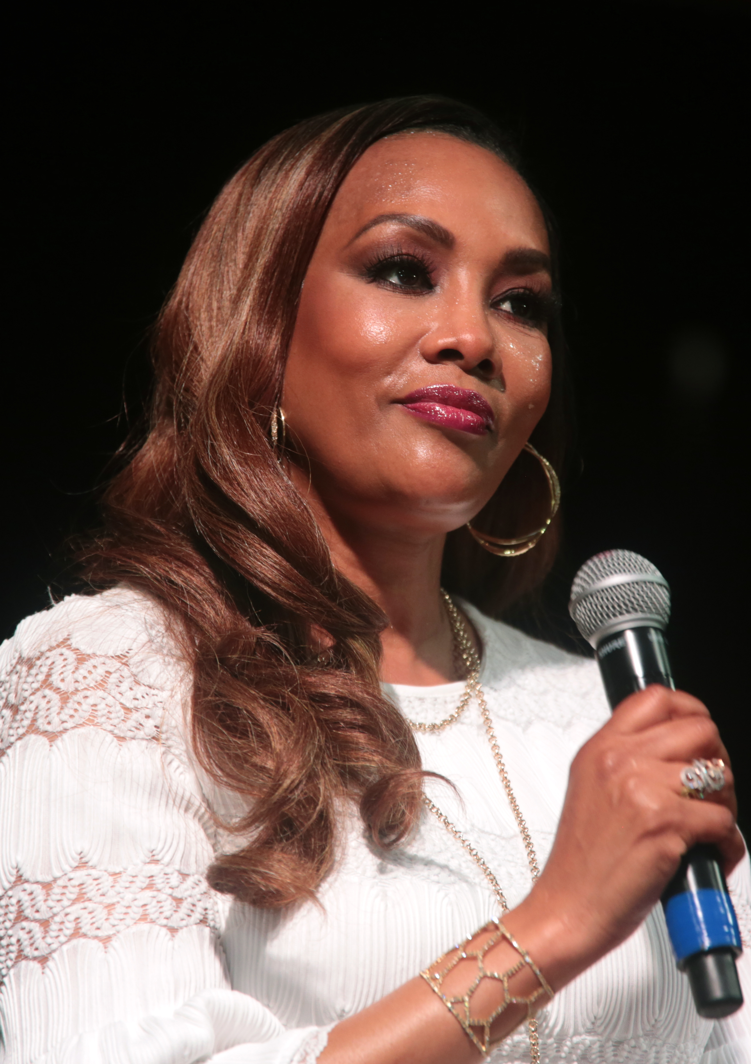 Vivica A. Fox speaking at the 2017 Arizona Ultimate Women's Expo at the Phoenix Convention Center in Phoenix, Arizona.